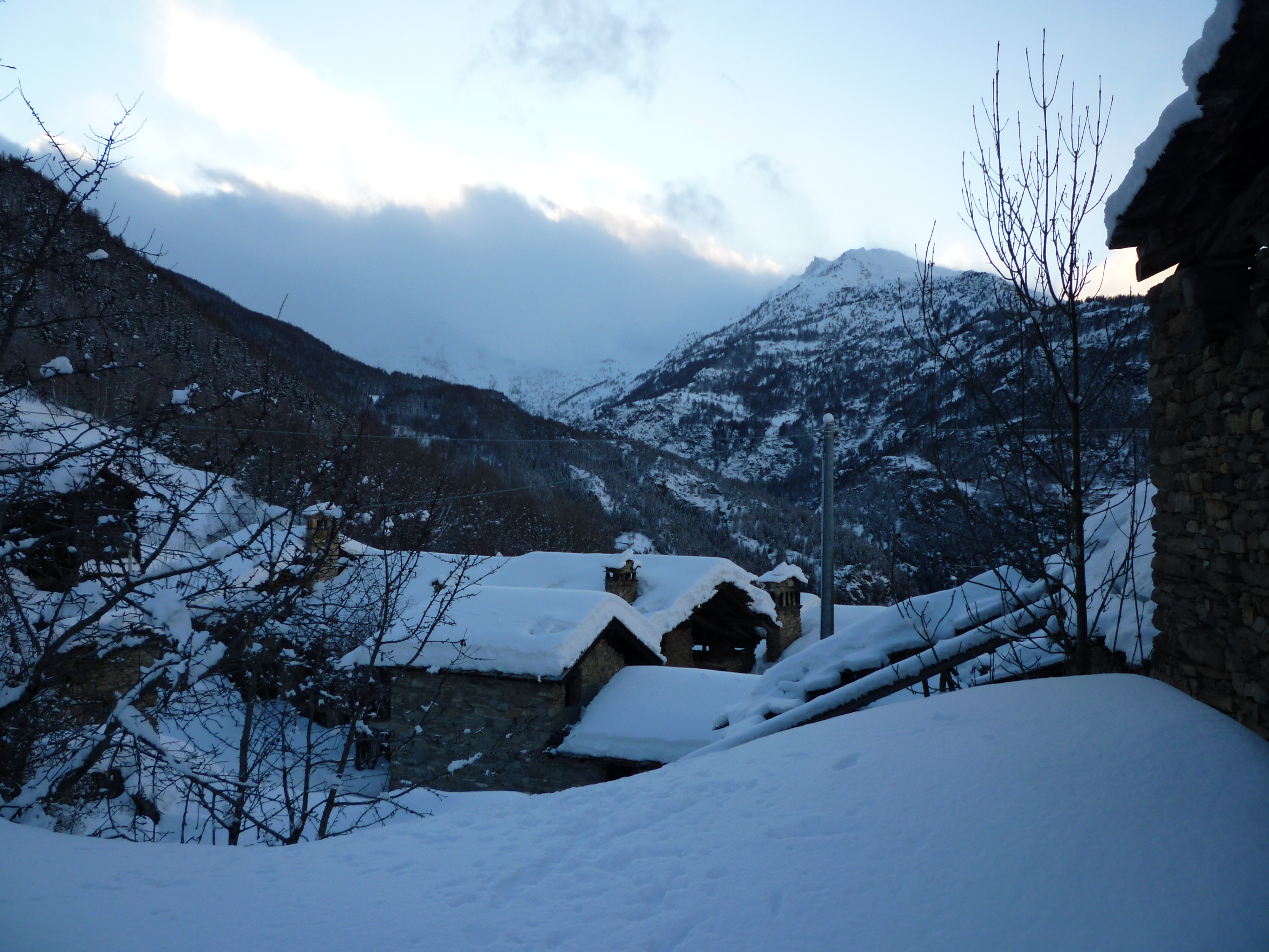 Overview of Sommarèse in winter (Émarèse - Aosta Valley, Italy)